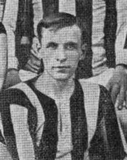 Percy Turner at Brentford FC 1902/03.